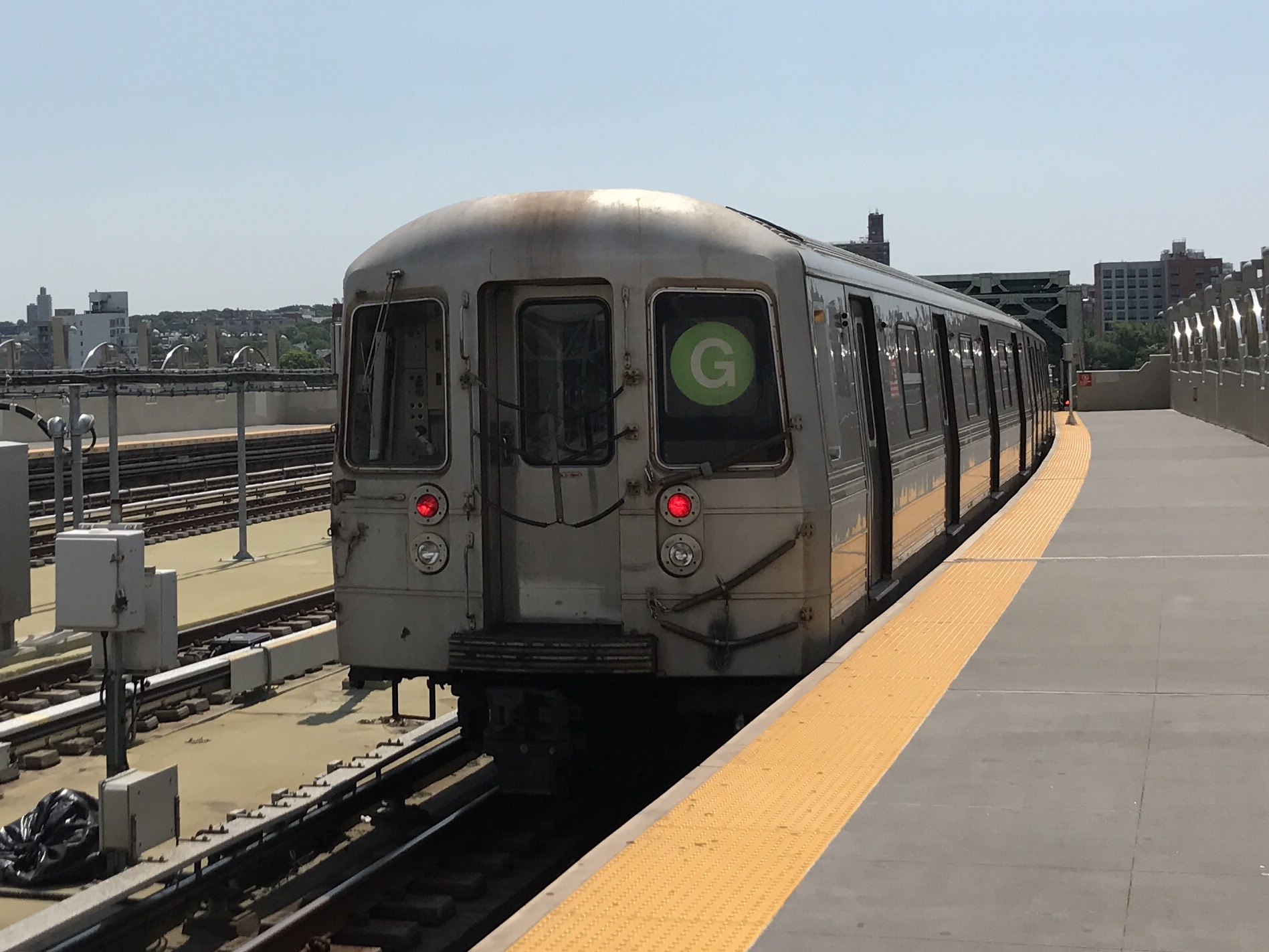 R68 #2862 with damage on the G line. This car is also the CRRC LED test train.